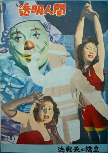 Japanese movie poster for 1954 Japanese film Tomei Ningen (透明人間, Tomei Ningen, lit. "Transparent Man")